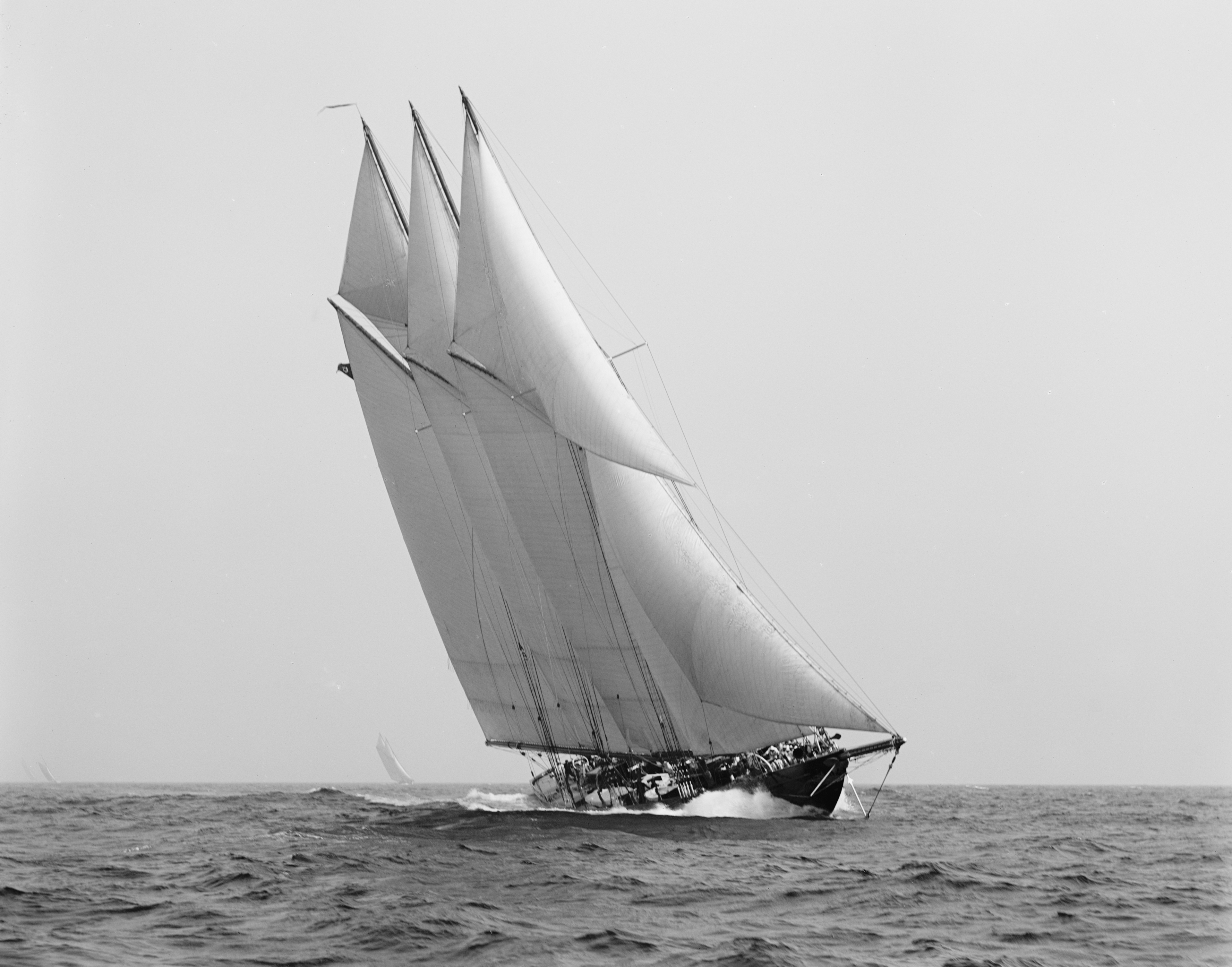 Wilson Marshall's schooner Atlantic (William Gardner design, built in 1903 at the Townsend & Downey shipyard, NY)